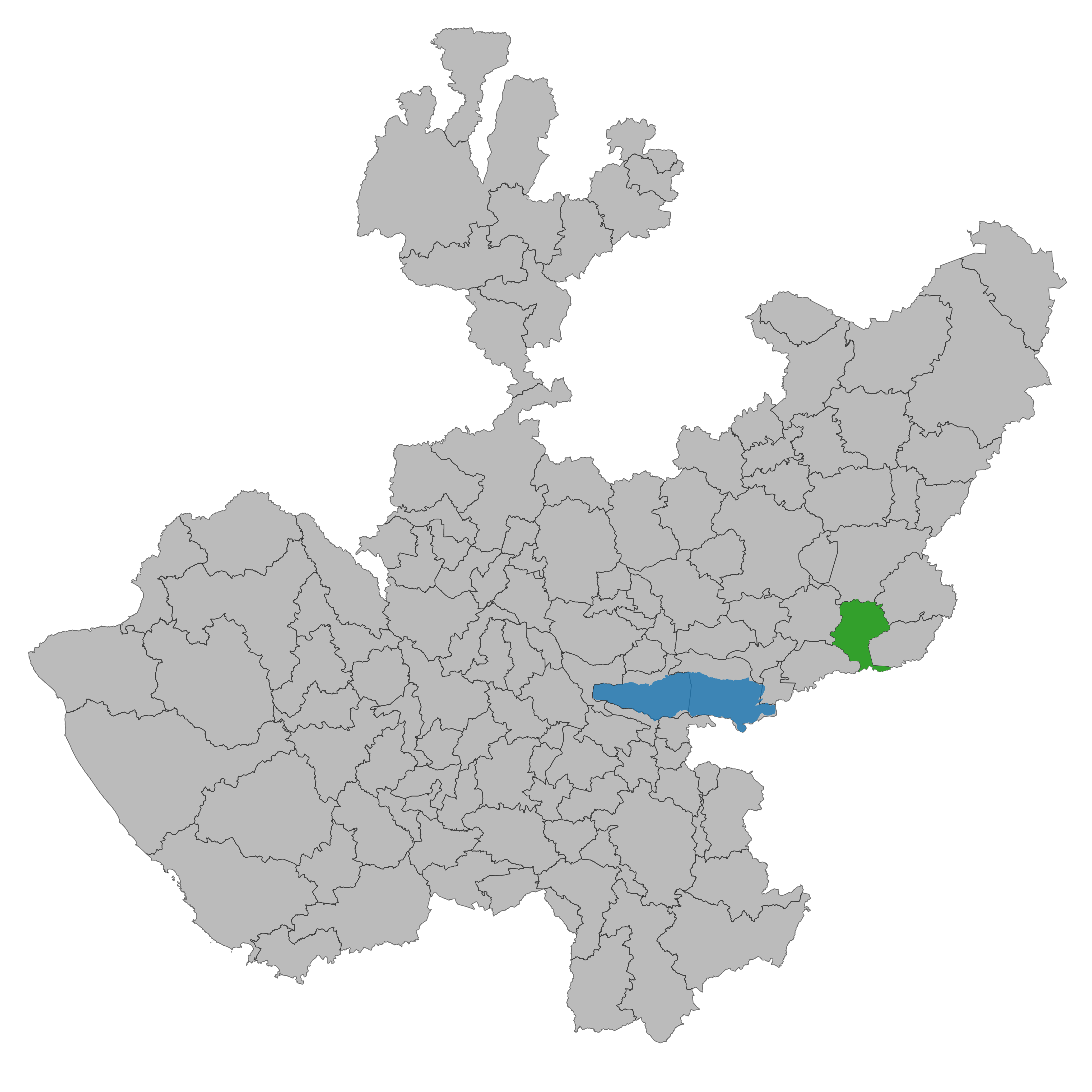 Municipality of Jalisco. Prepared with the software QGIS version 2.8.2 Wien & with information of SCINCE 2010 version 05/2013